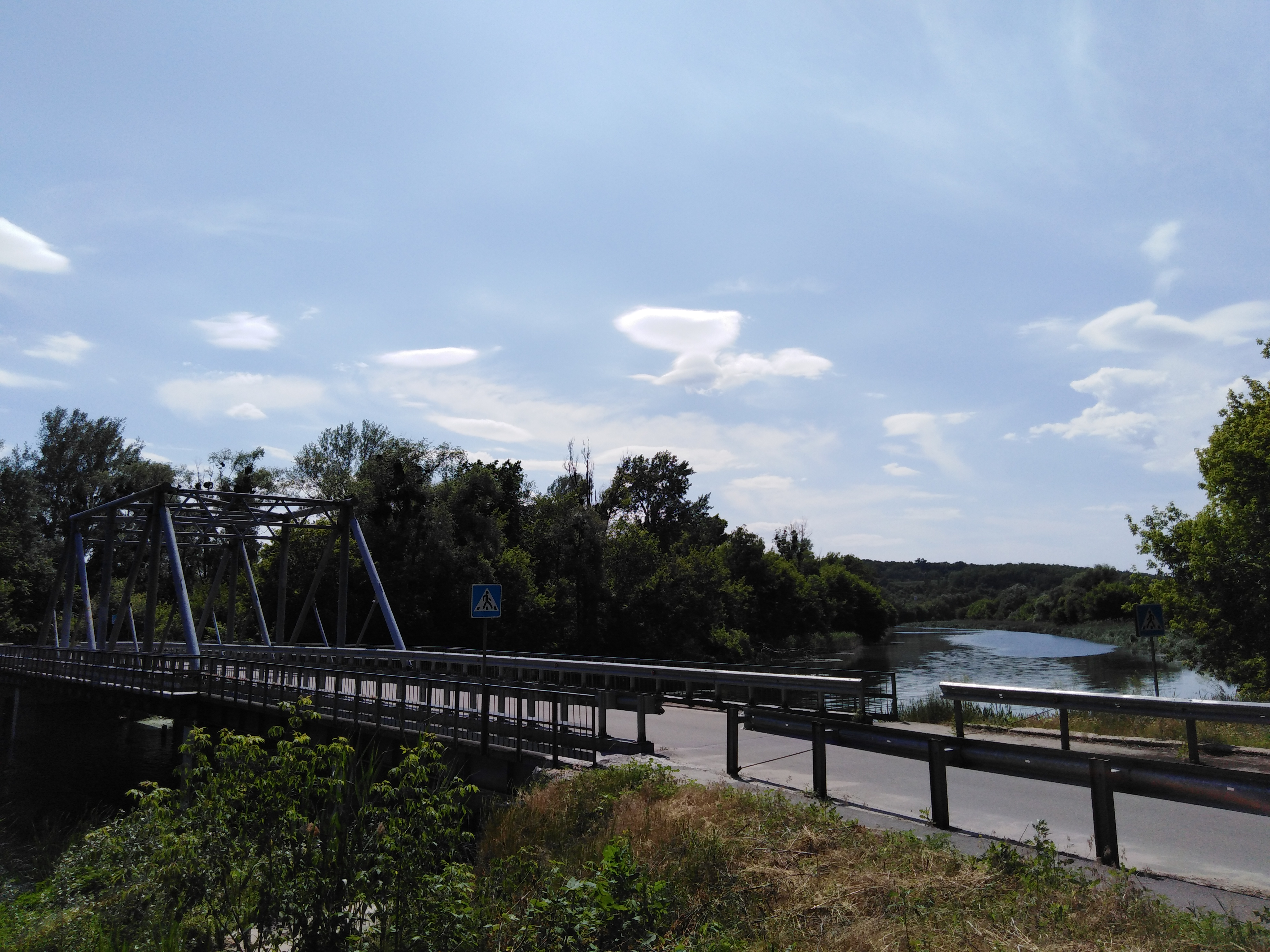 Ukraine, Kharkiv region. A bridge across the Udy river, between the villages of Gusin Polyana (Zmiiv district) and Vasyshev (Kharkiv district).